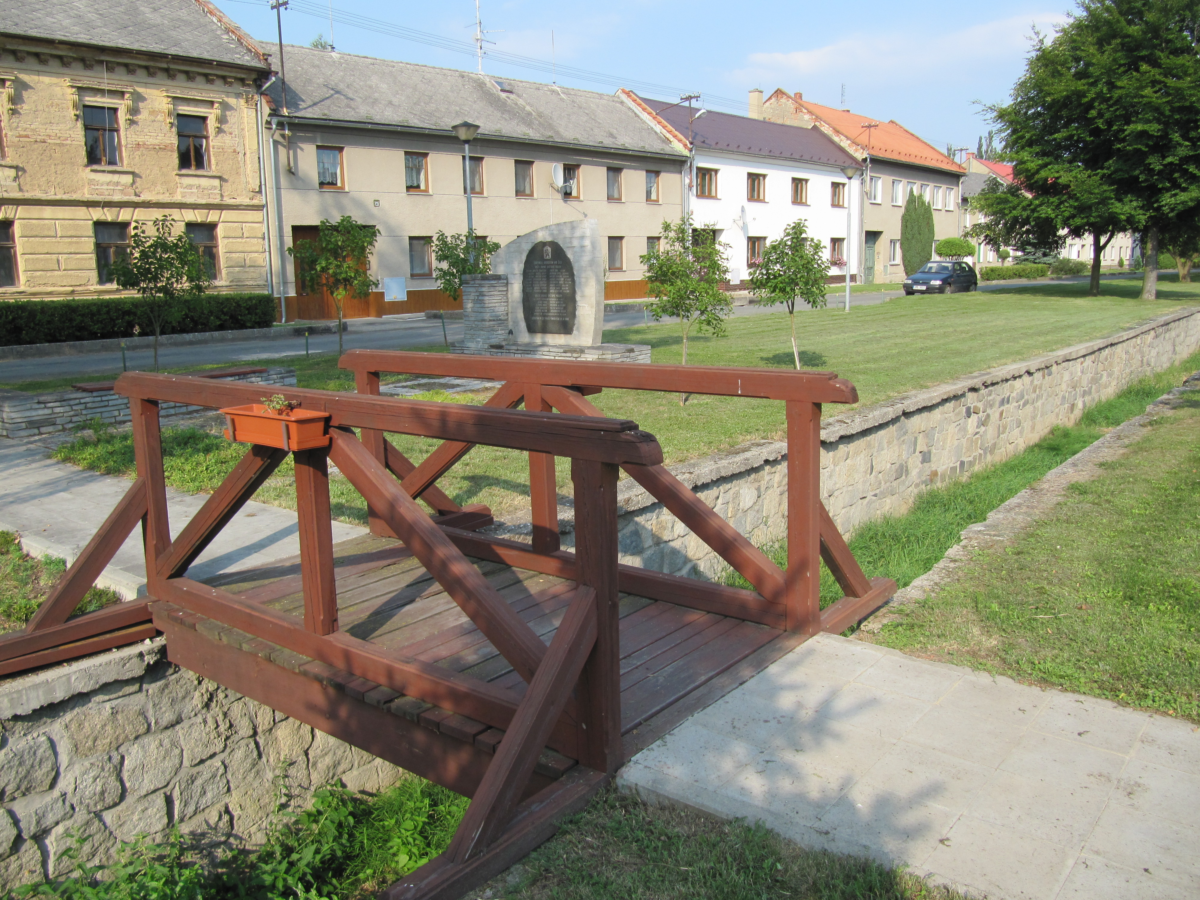 Luběnice in Olomouc District, Czech Republic. Footbridge on the village square and the monument to the victims of the World Wars.